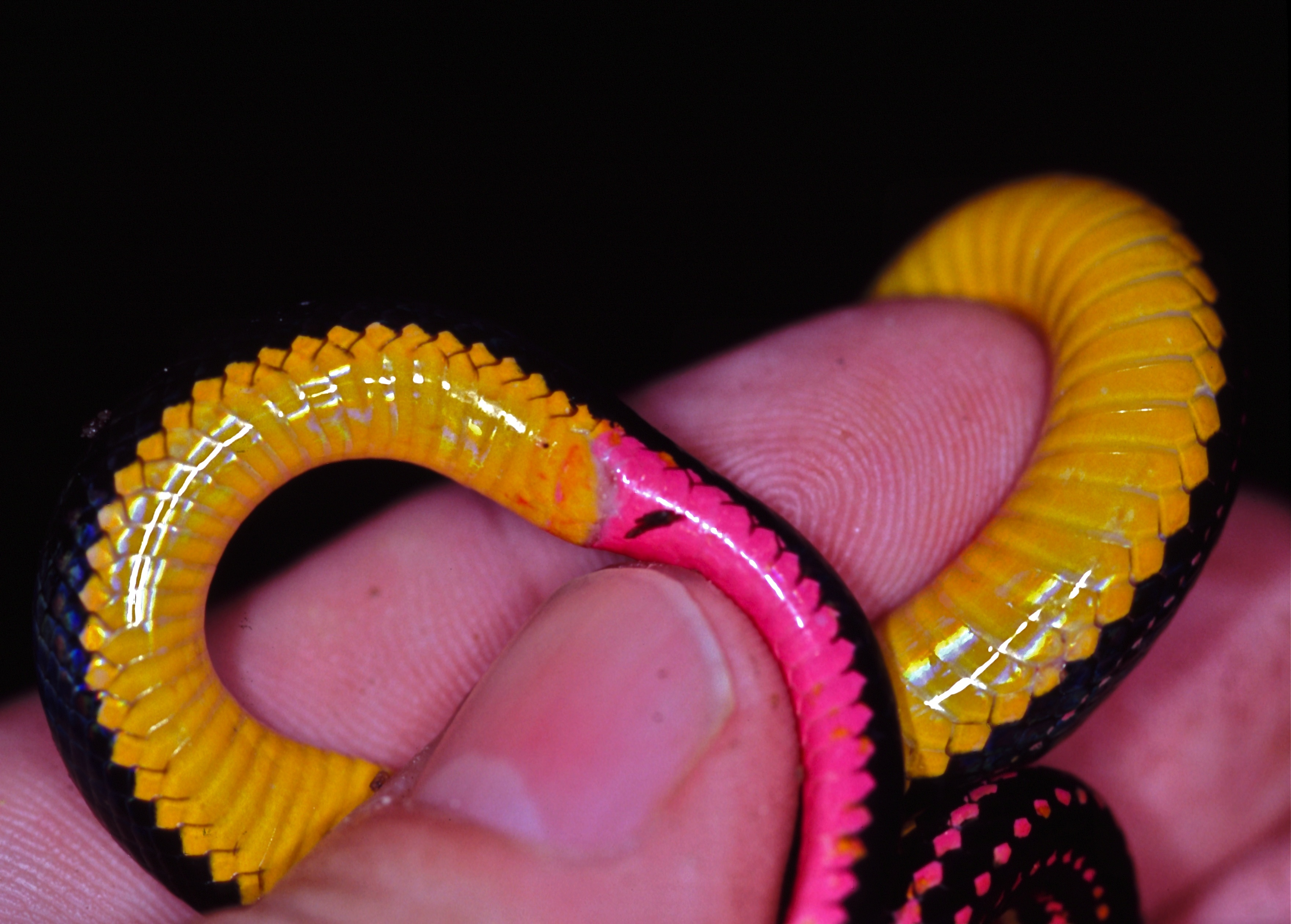 Tampolo, Masoala NP, MADAGASCAR Scanned Slide from 2004